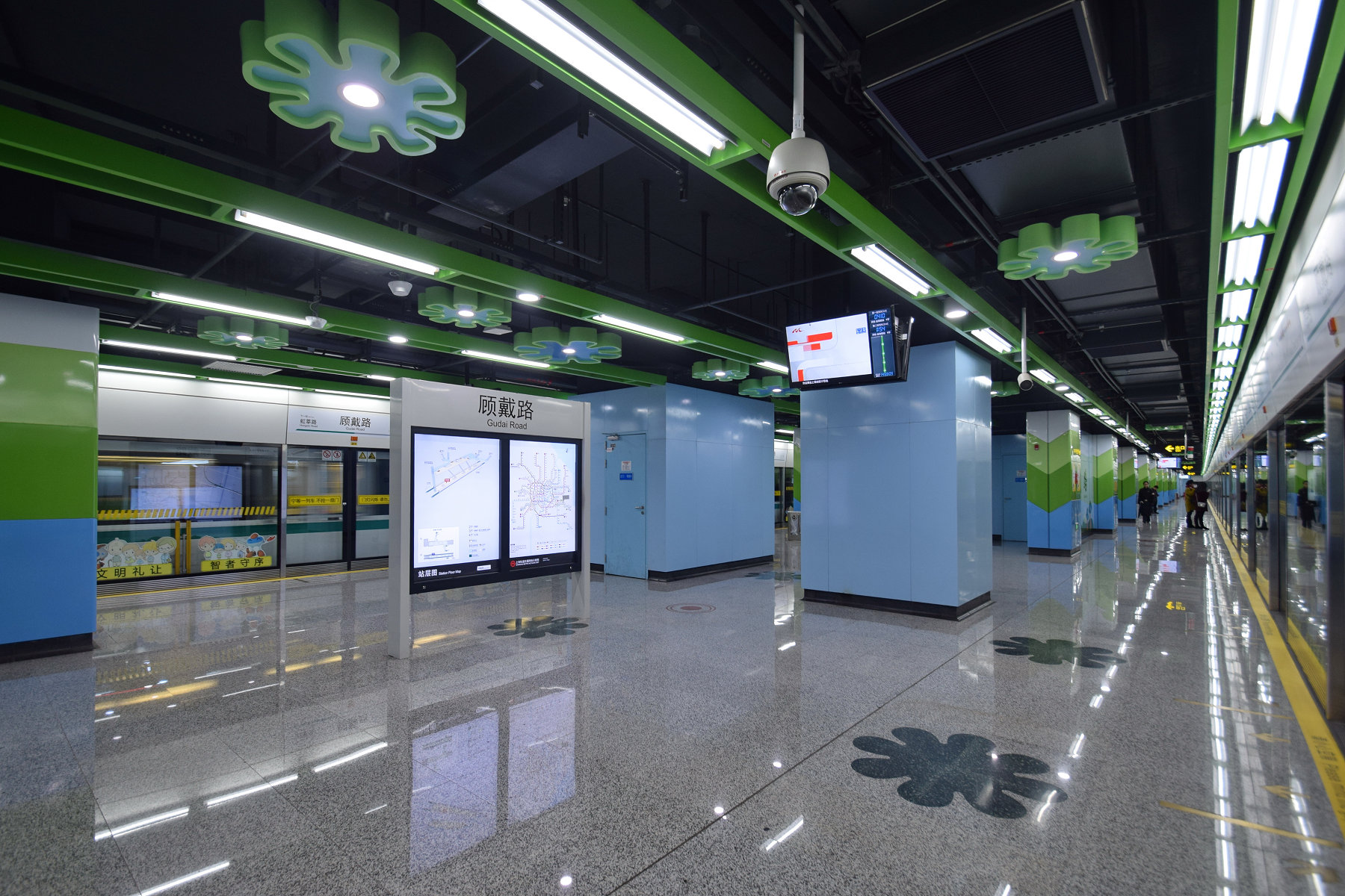 Line 12 Platform of Gudai Road Station, Shanghai Metro